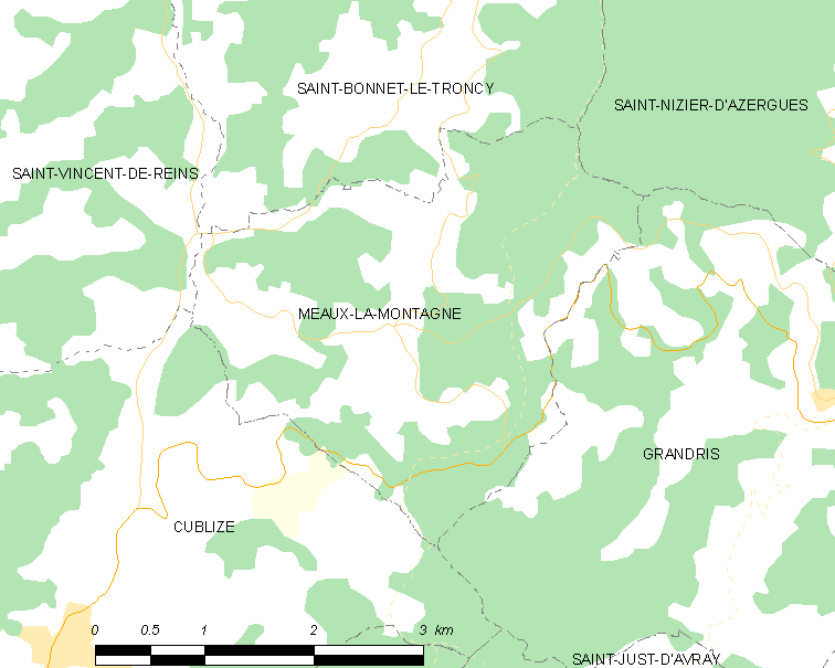 Map of French municipality